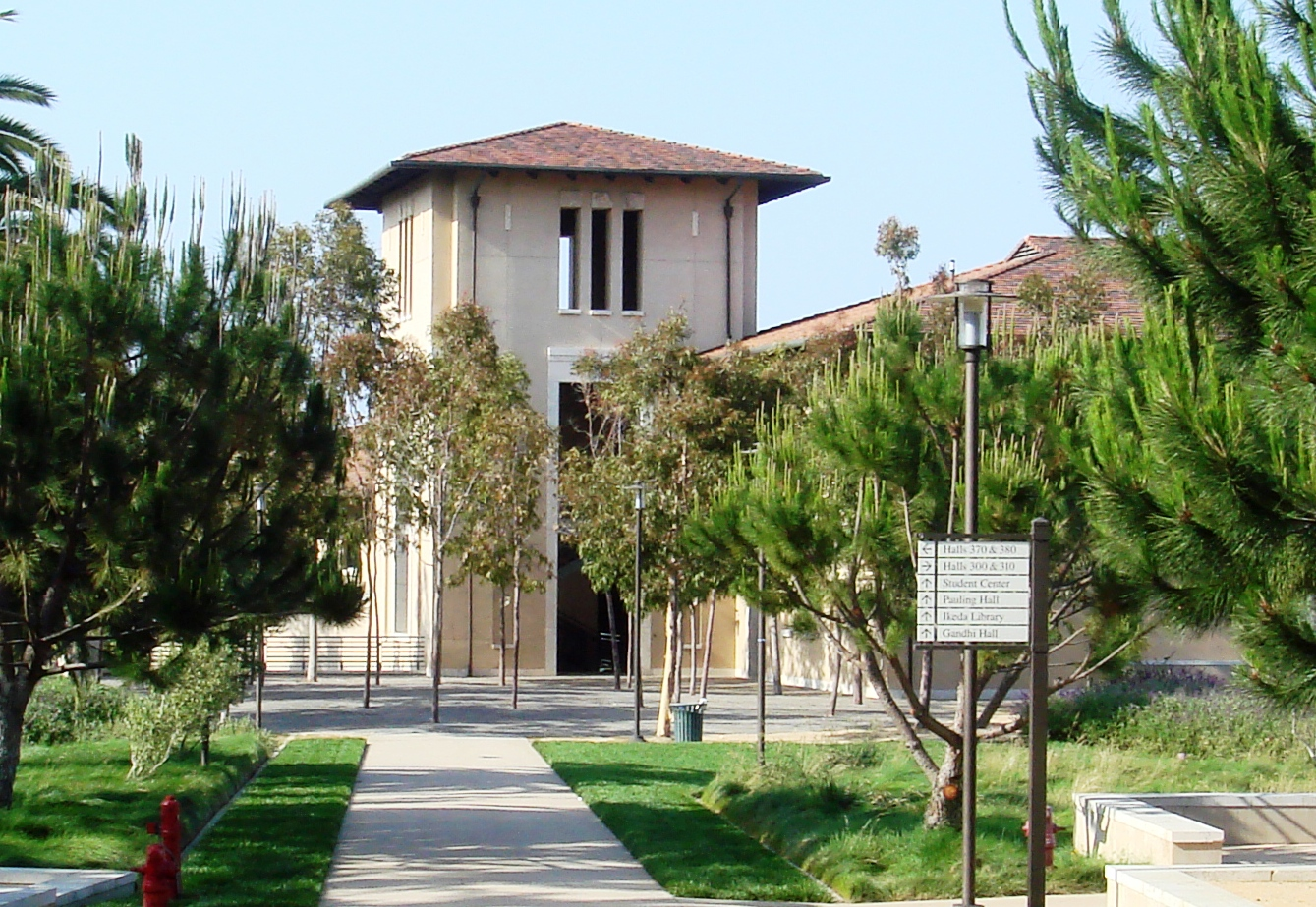 Student Center, Soka University of America in Aliso Viejo, California.